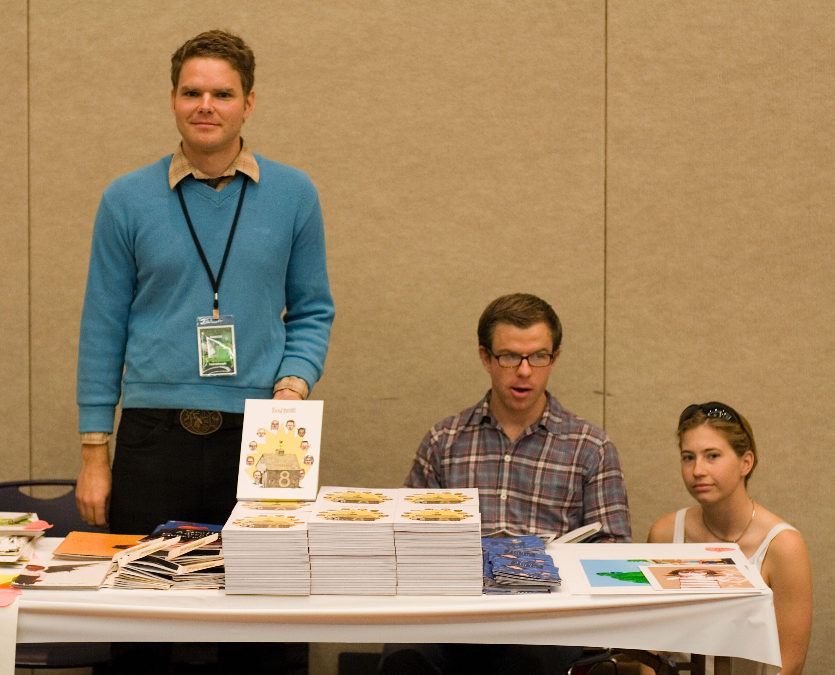 Farel Dalrymple, Zachary Baldus and Jenny Owens.